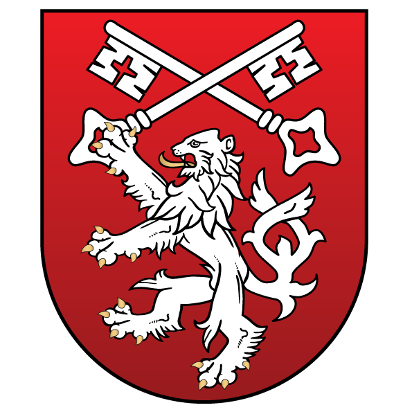 Coat of arms of Prachatice